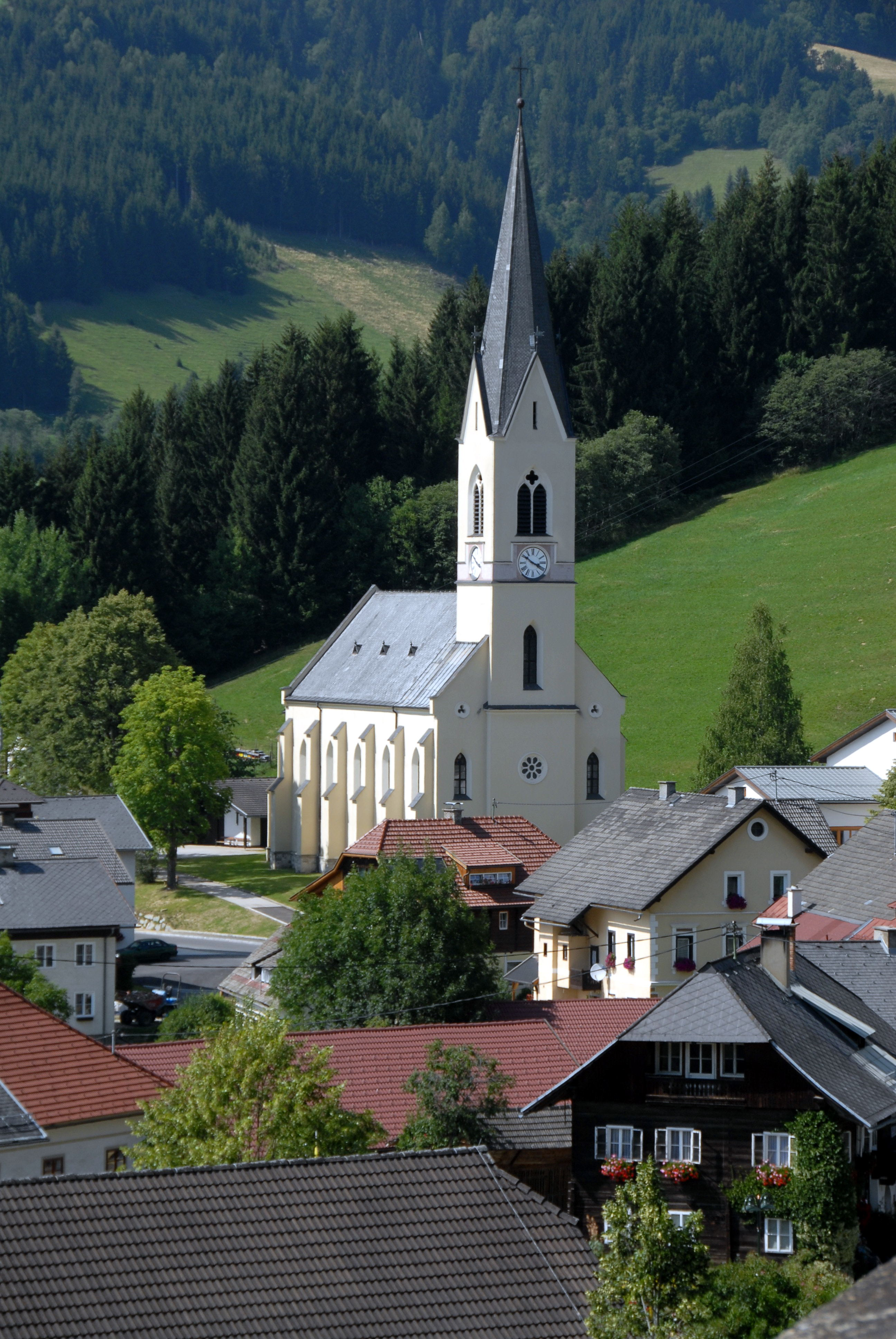 Lutheran Four-Evangelists-church in Arriach, district Villach Land, Carinthia, Austria, EU